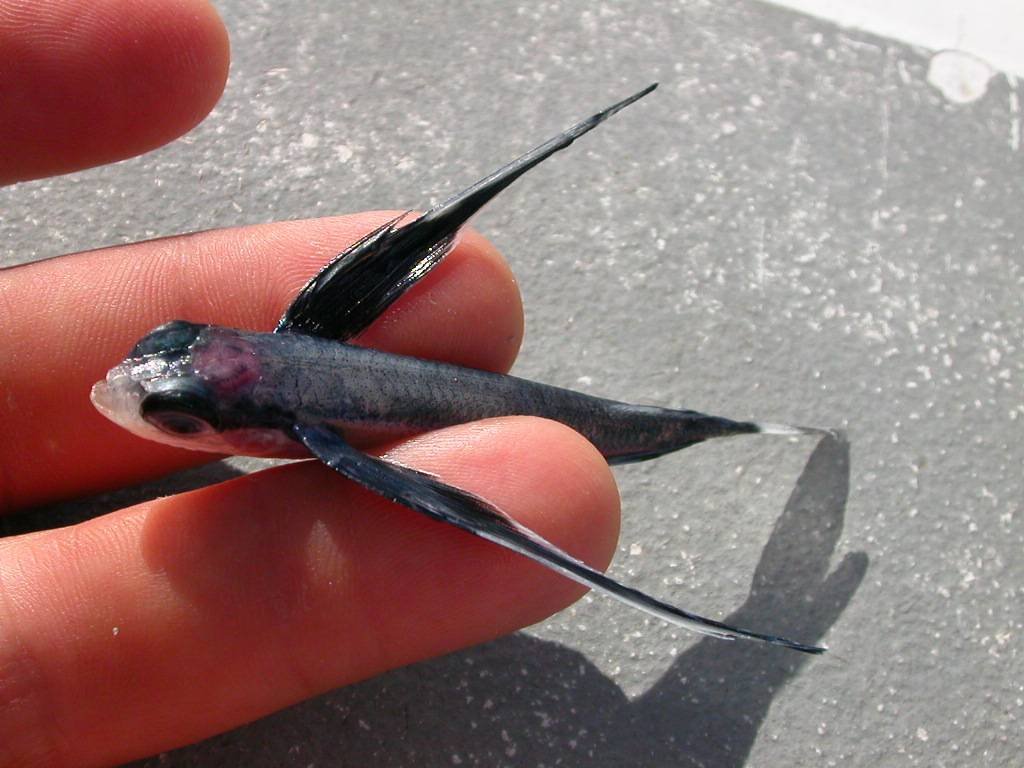 flyingfish Atlantique Ocean Exocoetidae exocet Exocoetus volitans